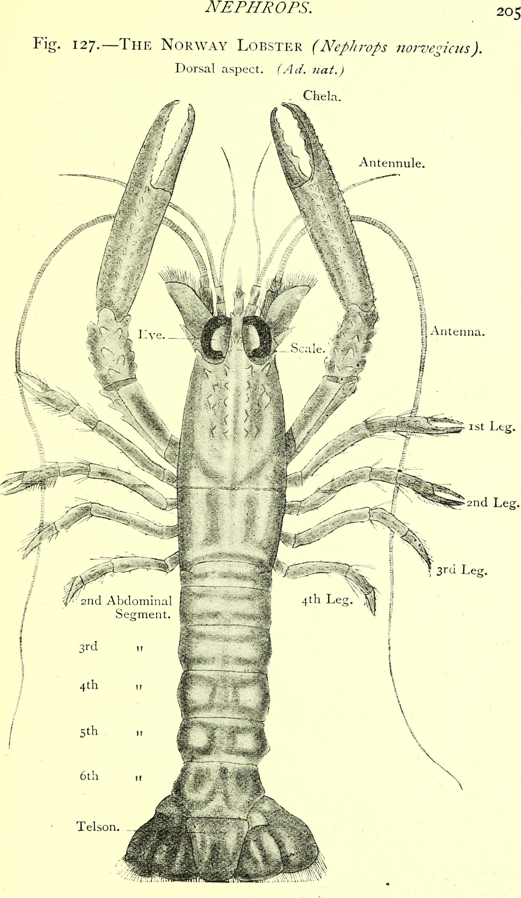 Title: Elementary text-book of zoology (electronic resource) Year: 1901 (1900s) Authors: Masterman, Arthur Thomas; Parsons, John Herbert, Sir, 1868-1957, donor; S. H. Lazarus (Firm); University College, London. Library Services Subjects: Zoology Publisher: Edinburgh : E. & S. Livingstone Text Appearing Before Image: ' Text Appearing After Image: '